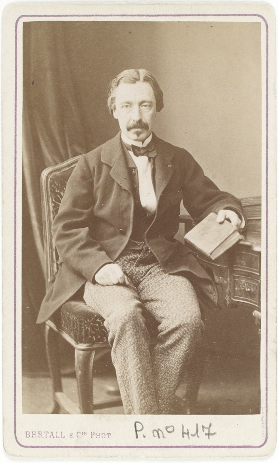 portrait Léon Foucault, stamp on backside: “3 Sept. 82”